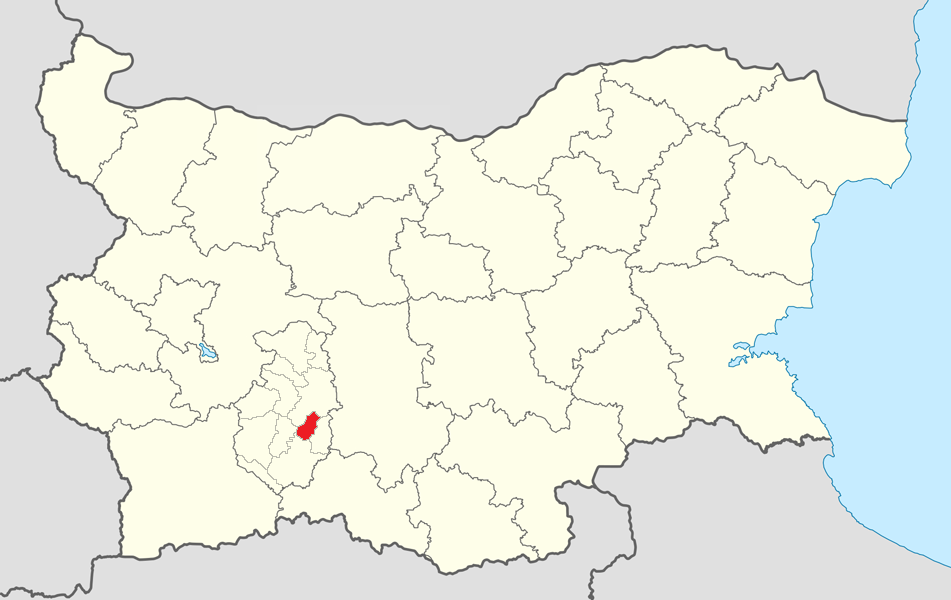 Location map of Peshtera Municipality within Bulgaria and Pazardzik province